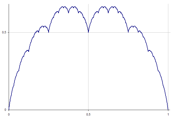 Takagi curve (or blancmange curve). A special case of a Landsberg curve f ( x ) = ∑ n = 0 ∞ w n s ( 2 n x ) {\displaystyle f(x)=\sum _{n=0}^{\infty }{w^{n}s(2^{n}x) , defined on the unit interval, where w = 1 / 2 {\displaystyle w=1/2} and s ( x ) {\displaystyle s(x)} is the sawtooth function. Its Hausdorff Dimension equals 1.